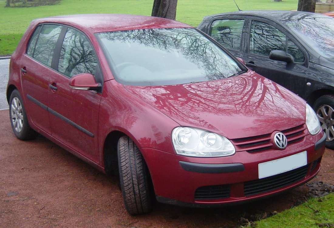 created by Mazurka